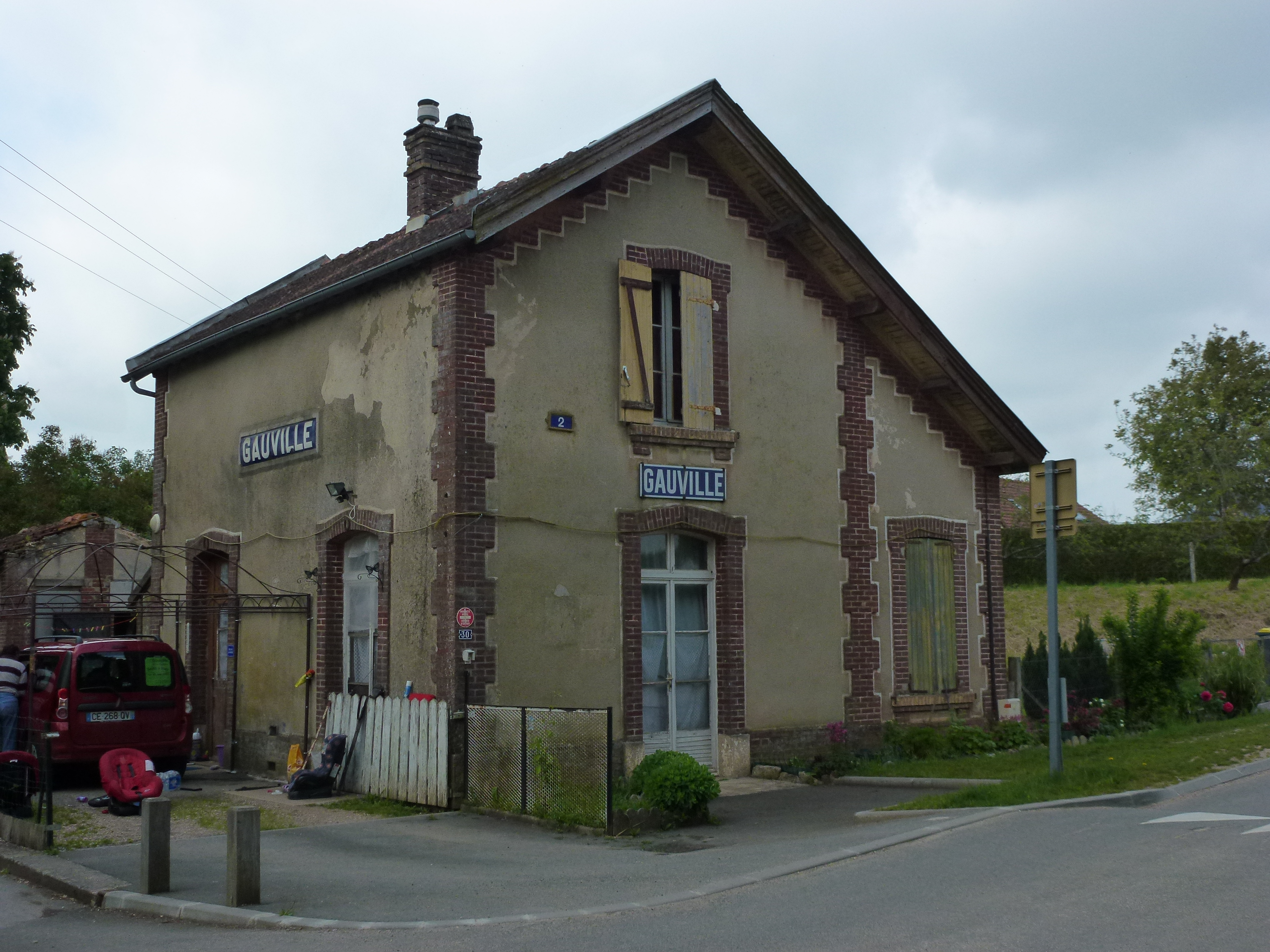 Voie verte Évreux-Vallée du Bec 05, ancienne gare de Gauville